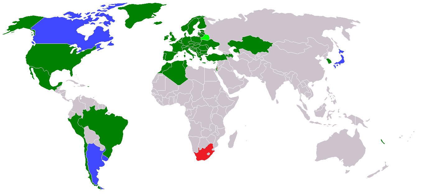 Dark green - member; light green - associate member; dark blue - observer; light blue - special status/cooperation.[1]